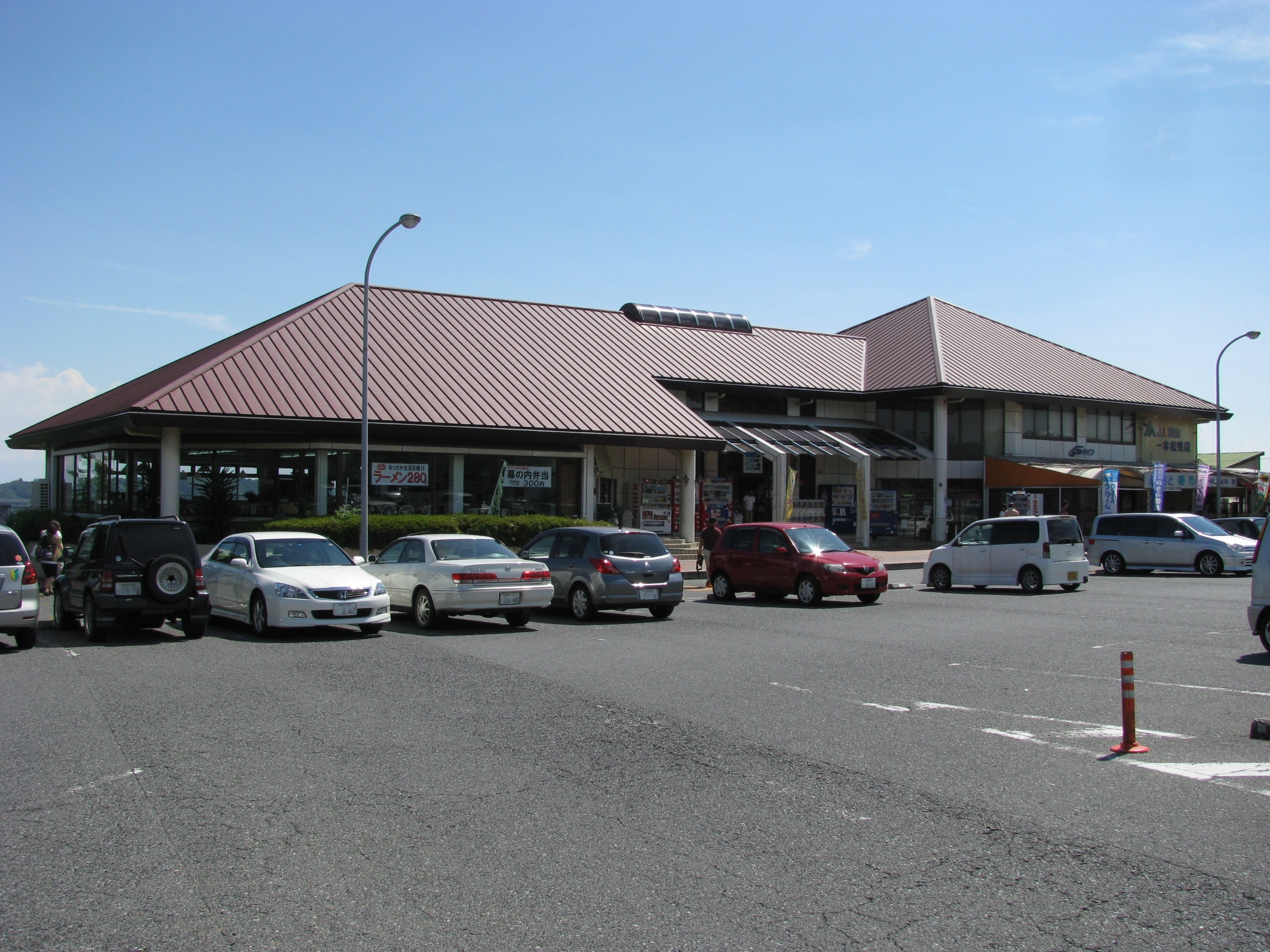 Michinoeki Ipponmatsu Tenboen in Setouchi City, Okayama Prefecture, Japan